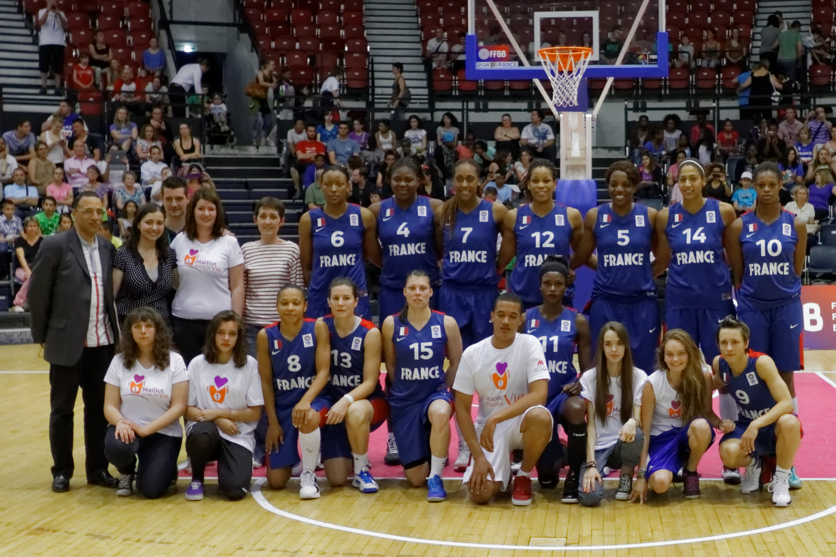 EuroEssonne, France - Canada, 7 June 2013.